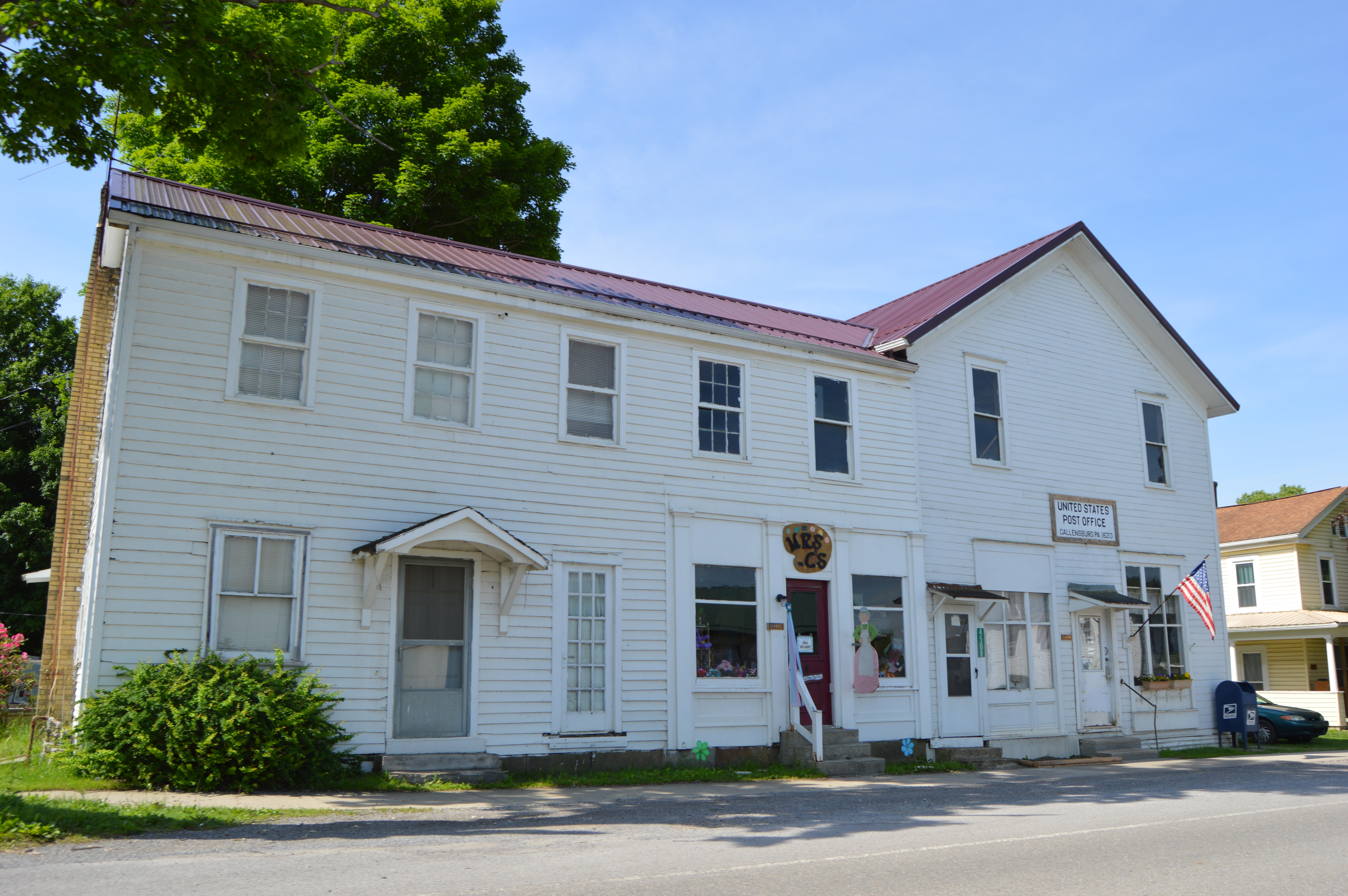 Front of the Callensburg post office and Mrs. C's craft/gift shop, located at 450 Main Street (Pennsylvania Route 368) in Callensburg, Pennsylvania, United States.